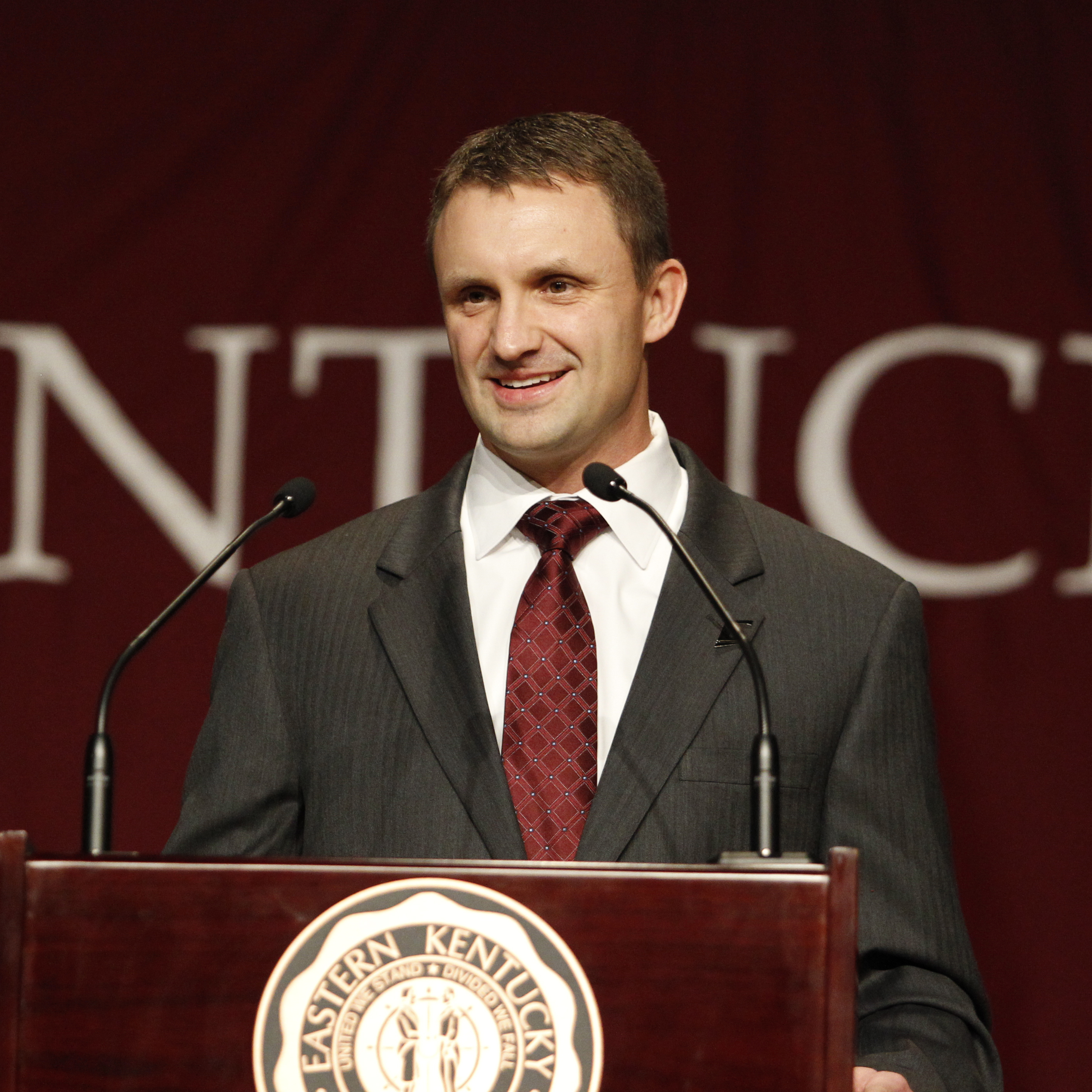 Mark Elder at Introductory Press Conference (Eastern Kentucky University, 12/10/2015)